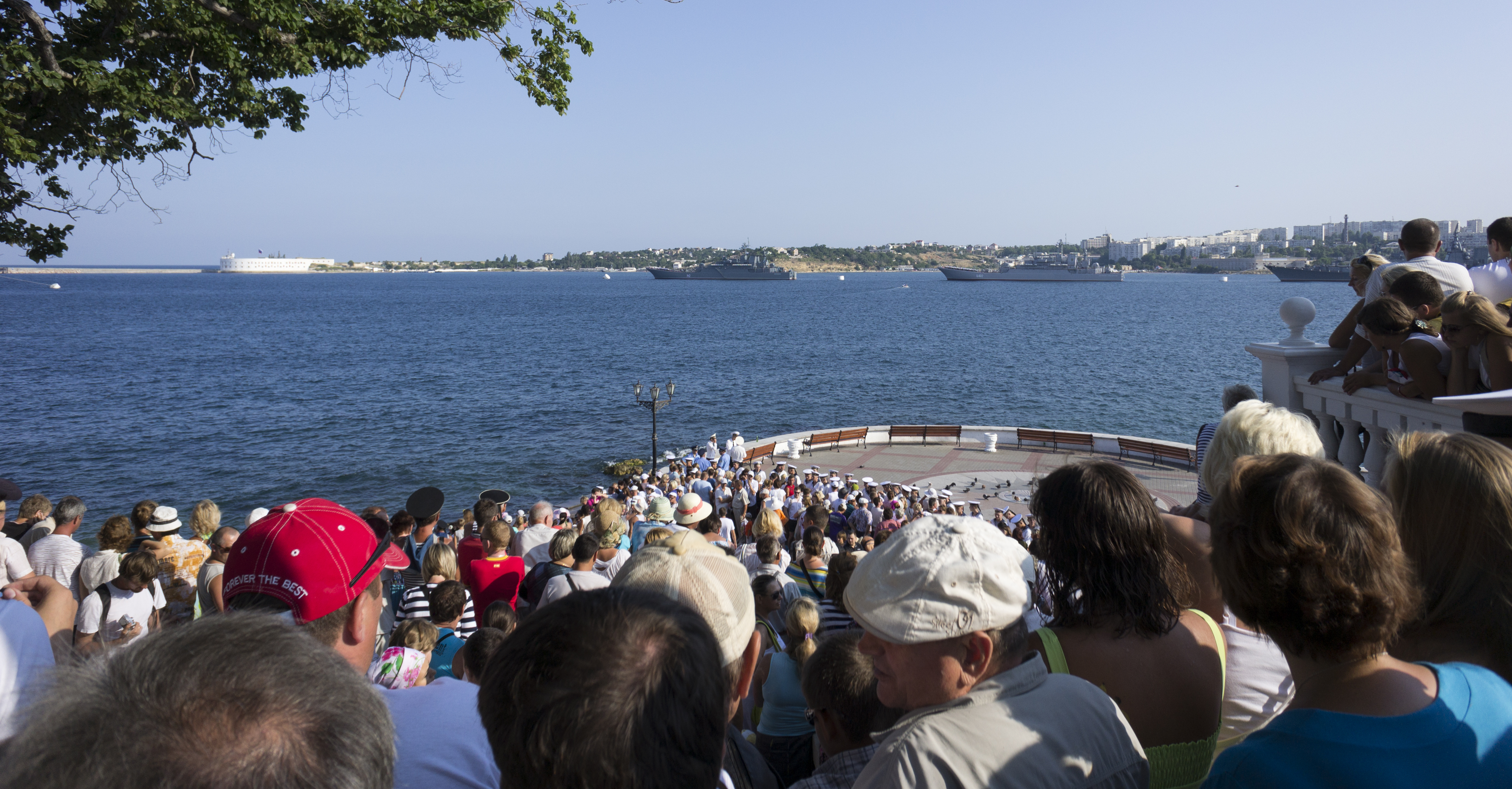 Celebrating the Russian Navy Day in Sevastopol, Crimea with show of Russian Black sea fleet.